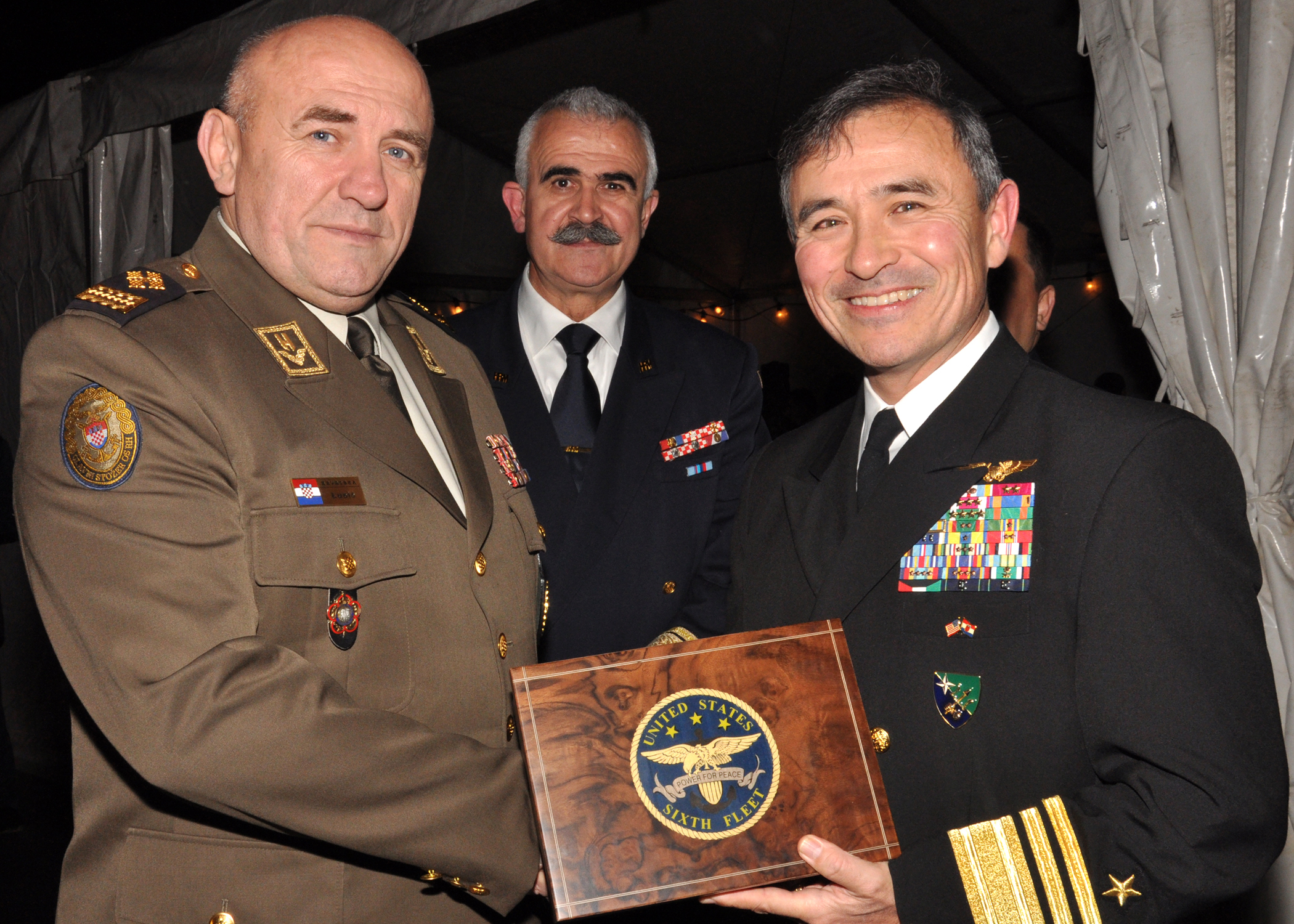 SPLIT, Croatia (Dec. 3, 2010) Vice Adm. Harry B. Harris Jr., right, commander of the U.S. 6th Fleet, presents Croatia chief of defense Gen. Josip Lucic with a U.S. 6th Fleet gift box during a reception aboard the amphibious command ship USS Mount Whitney (LCC/JCC 20). Mount Whitney visited Split as part of a four-day port visit to strengthen partnership and friendship between Croatia and the United States. (U.S. Navy photo by Mass Communication Specialist 2nd Class Sylvia Nealy/Released)